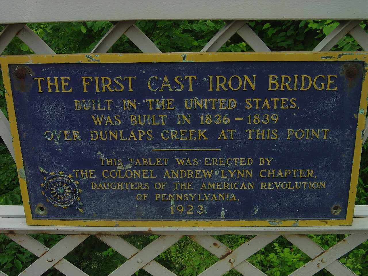 The first cast iron bridge in America, built over Dunlaps Creek in Brownsville, PA.